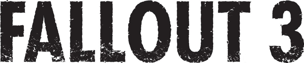 Fallout 3 logotype.